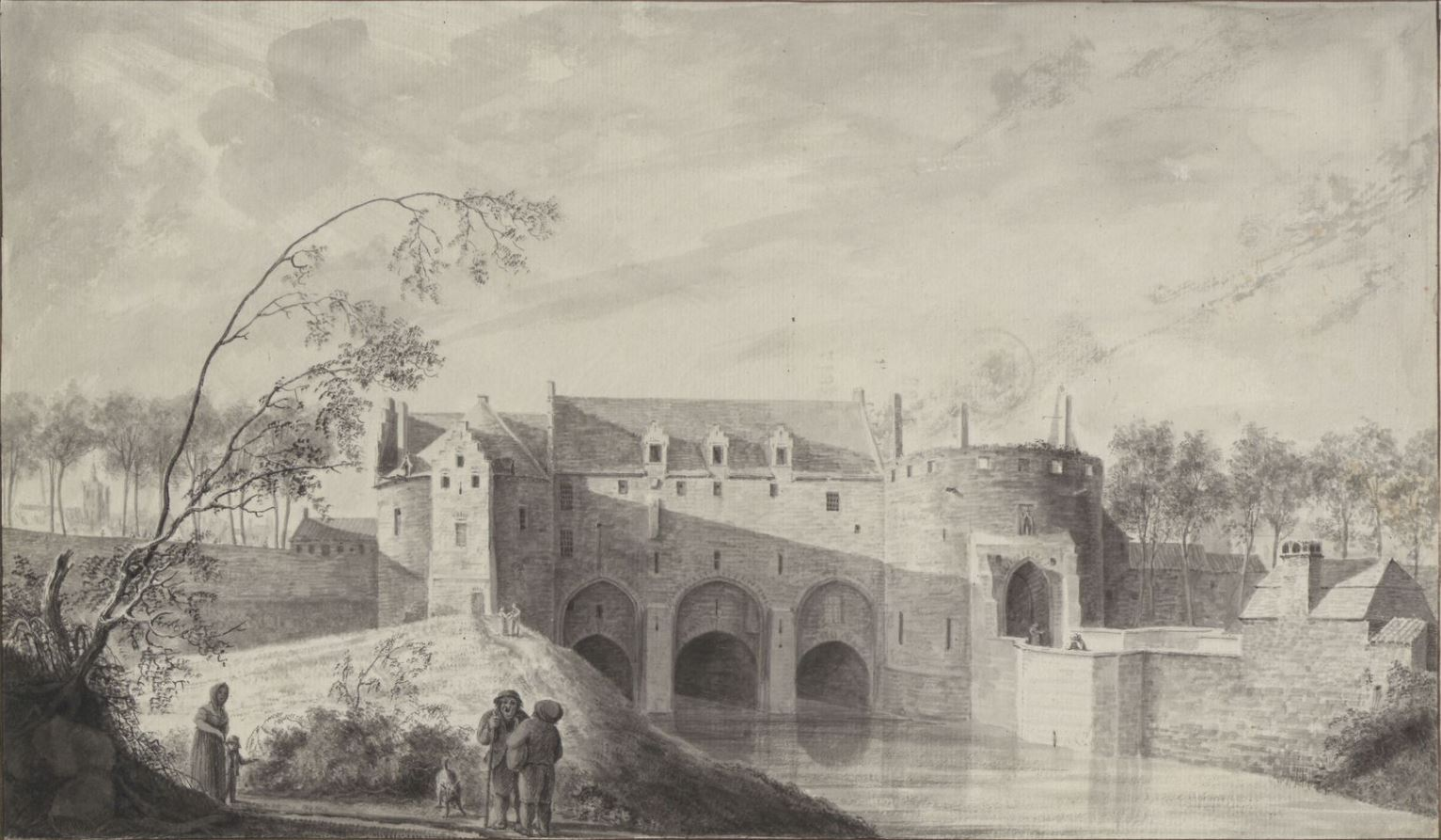 Drawing from the second part of the album 'Vues de Bruxelles et environs' by Paul Vitzthumb, held in the Royal Library of Belgium.